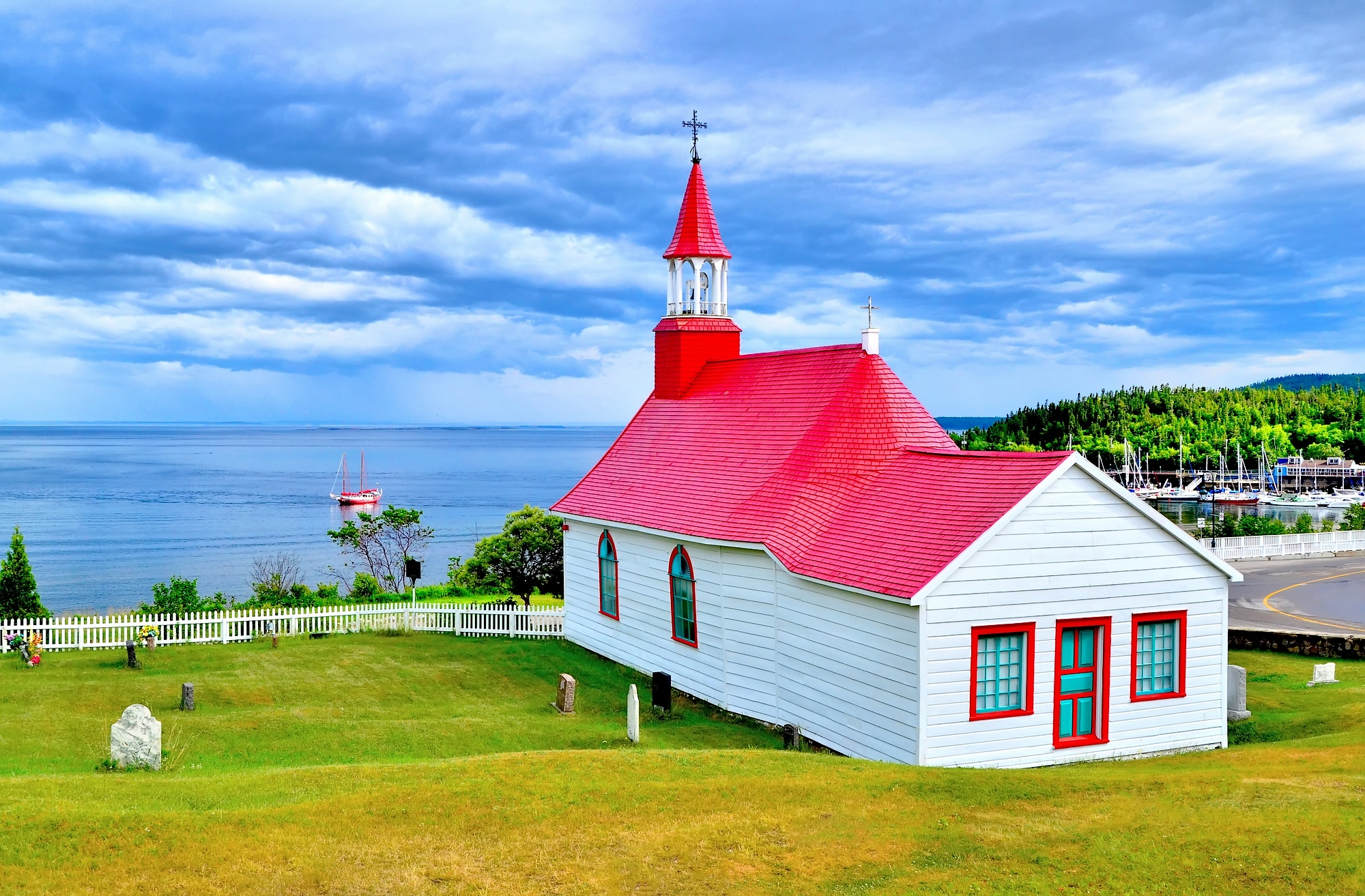 Old chapel, build 1747-1750 (the oldest wooden church in North-America) in Tadoussac, Quebec, Canada